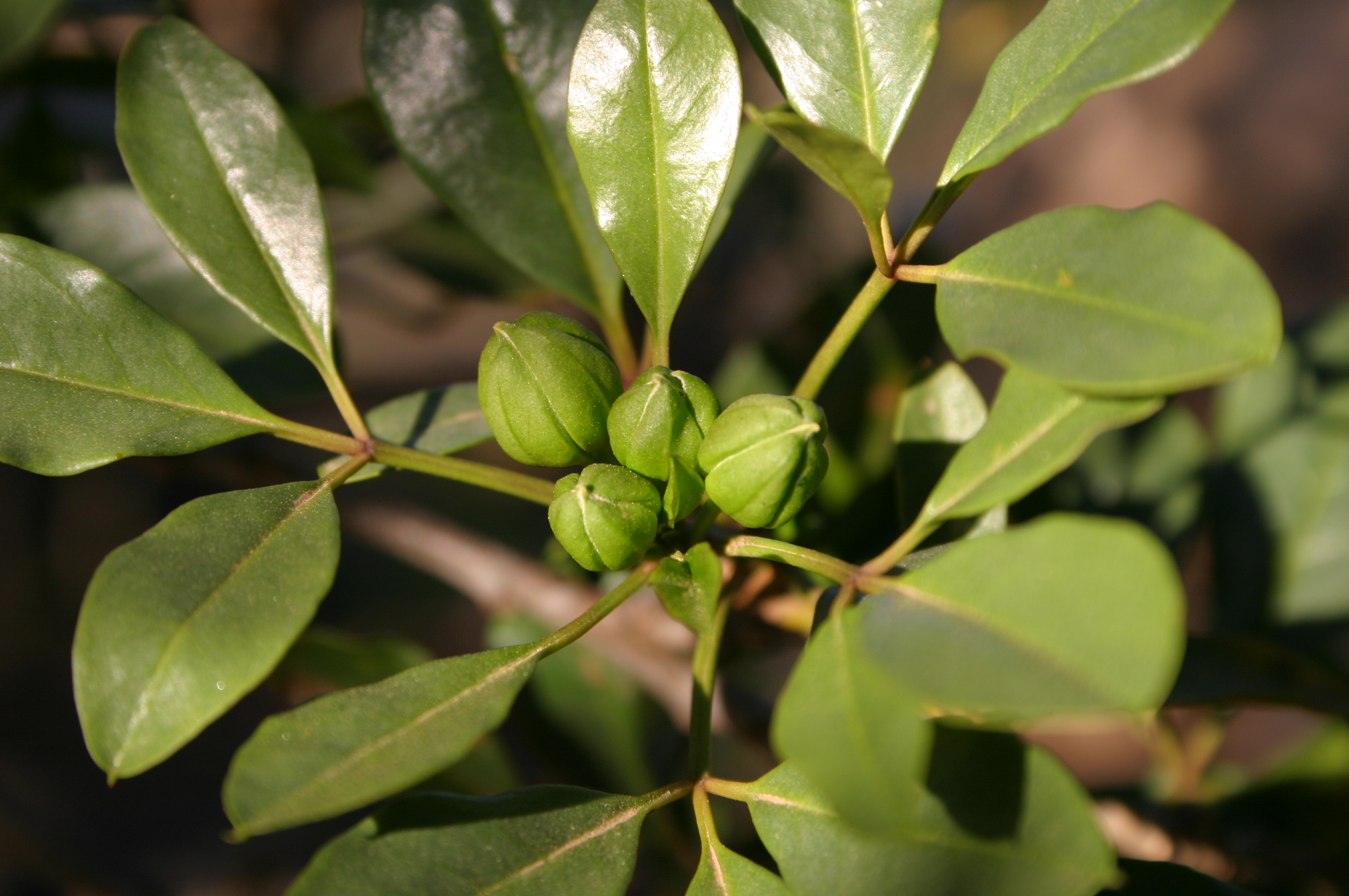 Maerua cafra flowerbuds, Chucklenook, Honeydew, Johannesburg